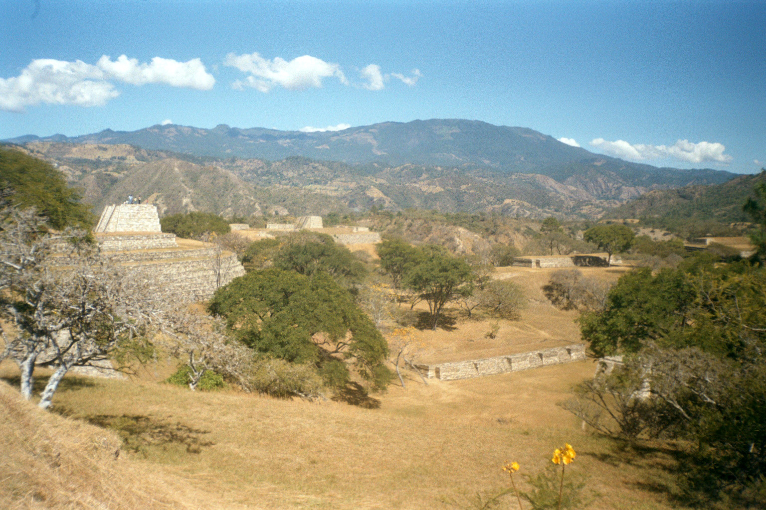 View of Mixco Viejo. Group B-X at lower right (Structures B-X-3 and B-X-4). Group B stands upon the massive platform on the left, with the double pyramid B-3 visible. In the centre background is Group A, with its own double pyramid A-1 visible as the tallest structure in its group. Group D extends along the centre right in the middle distance.